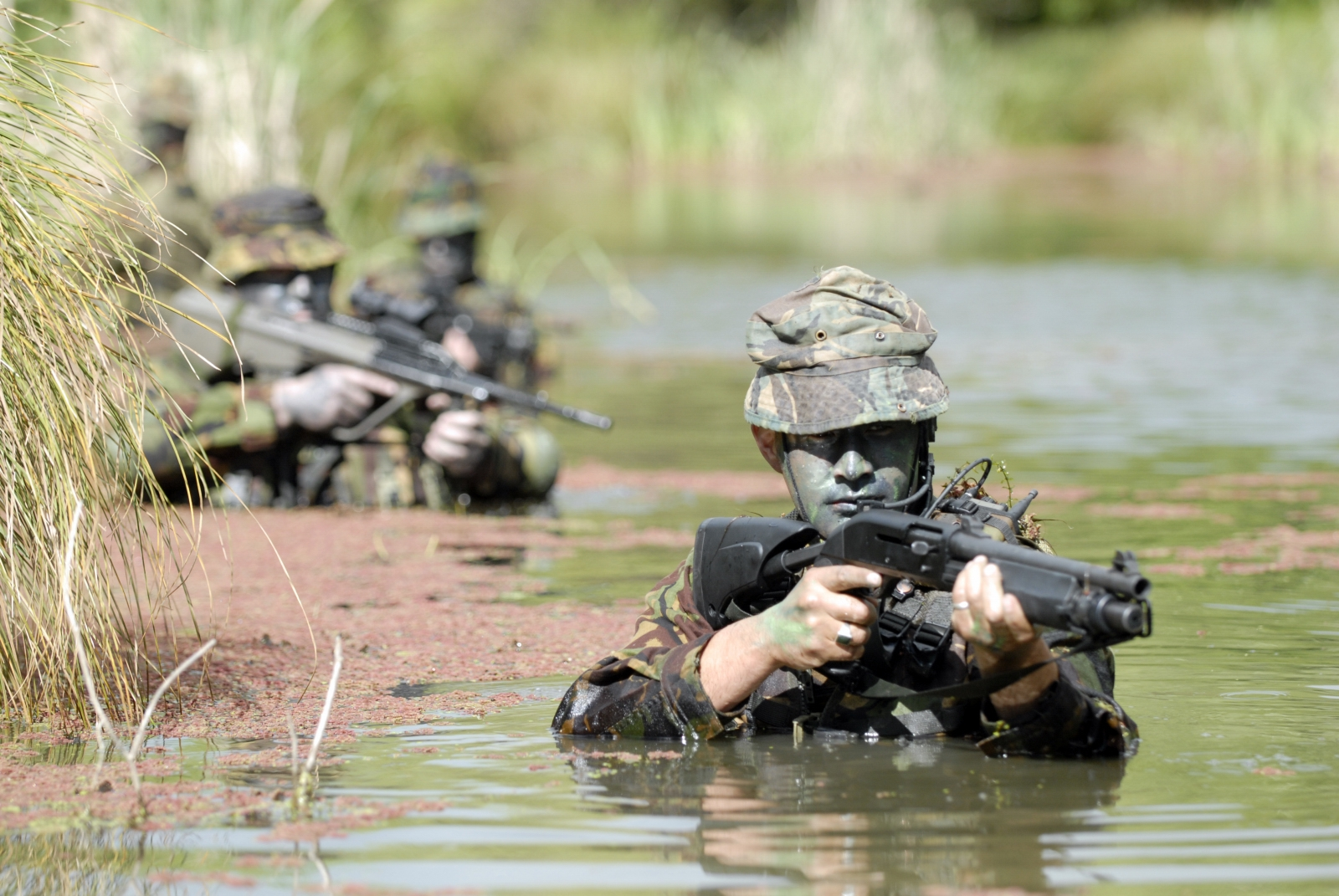 An Army section on patrol OH 06-0570-21 Crown Copyright 2011, NZ Defence Force – Some Rights Reserved.